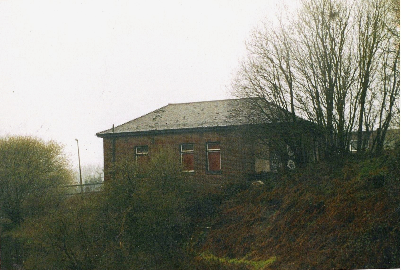 Blower's Green station building in 2004. Station shut in mid 1960's.